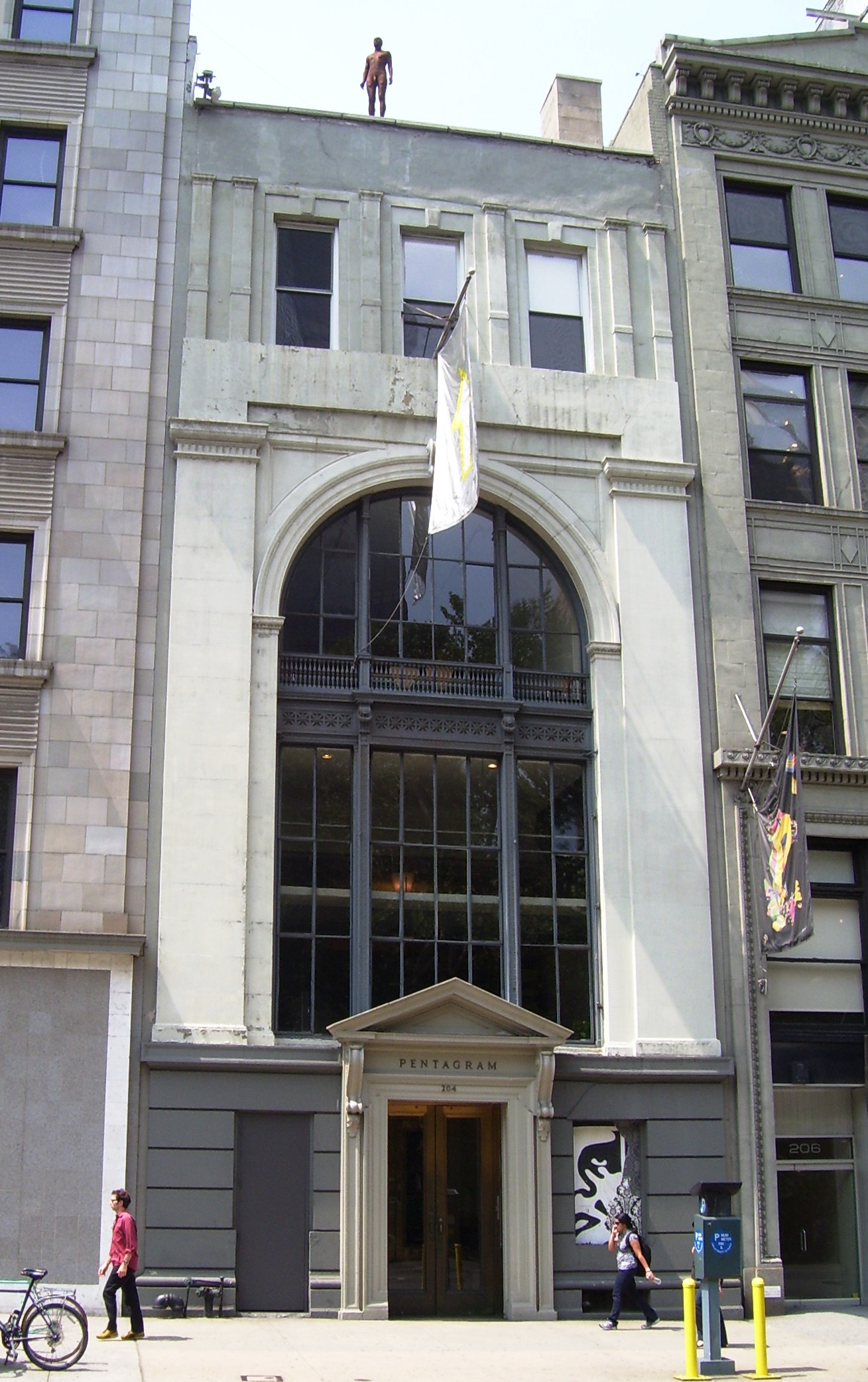 The Pentagram design studio bulding, designed by C.P.H. Gilbert in 1913 in the Neo-Classical style, at 204 Fifth Avenue in Manhattan, New York City, across from Madison Square Park. On top of the building is a "Gormley", a statue that is part of artist Antony Gormley's Event Horizon installation on buildings around Madison Square. (Source: "NYCLPC Madison Square North Historic District Designation Report")